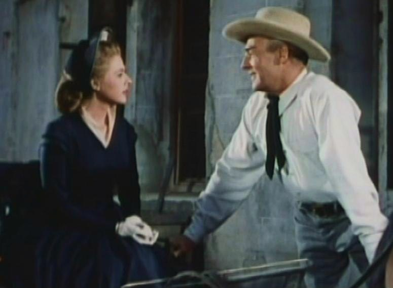 Mala Powers & Randolph Scott in Rage at Dawn - cropped screenshot